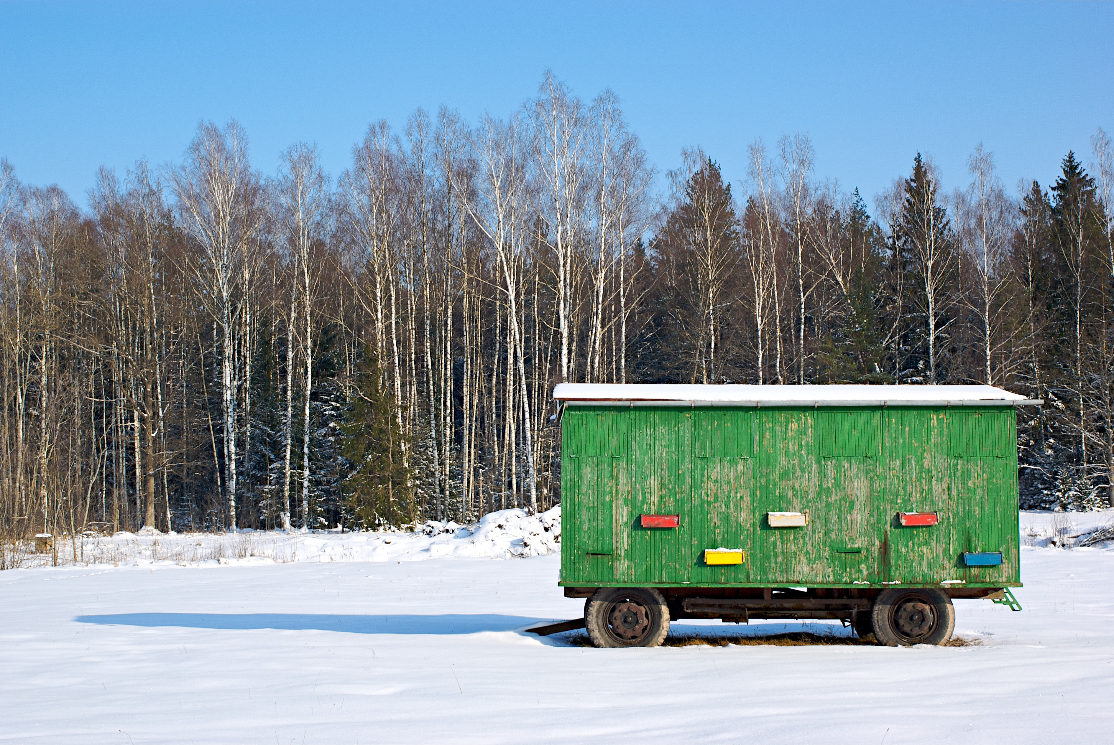 A 4-wheel enclosed trailer used for beehives transportation. This photo was taken in the Latvian countryside, nearby Jaunbērze city.